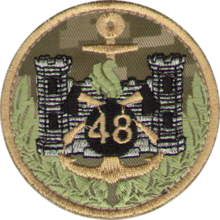 Shoulder Sleeve Insignia of 48th Engineer Brigade, Uknaine